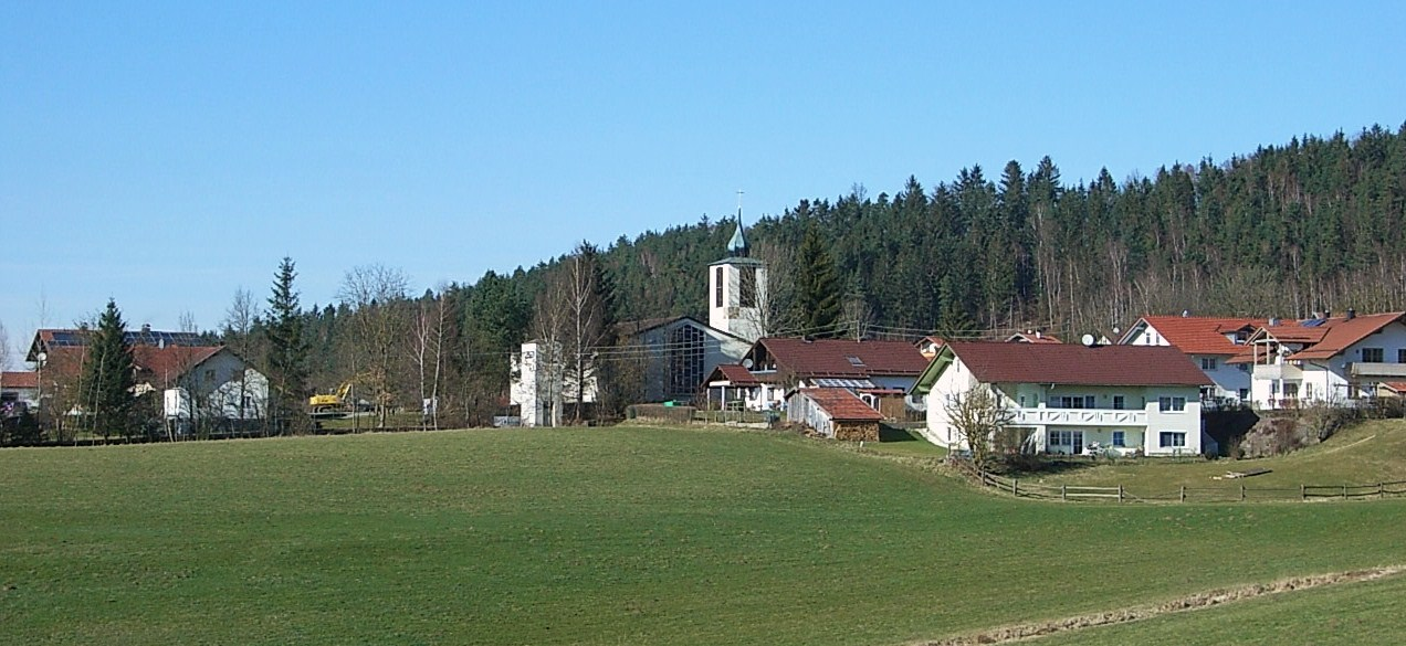 General view of Kaikenried from south with Parish Church of the Assumption.